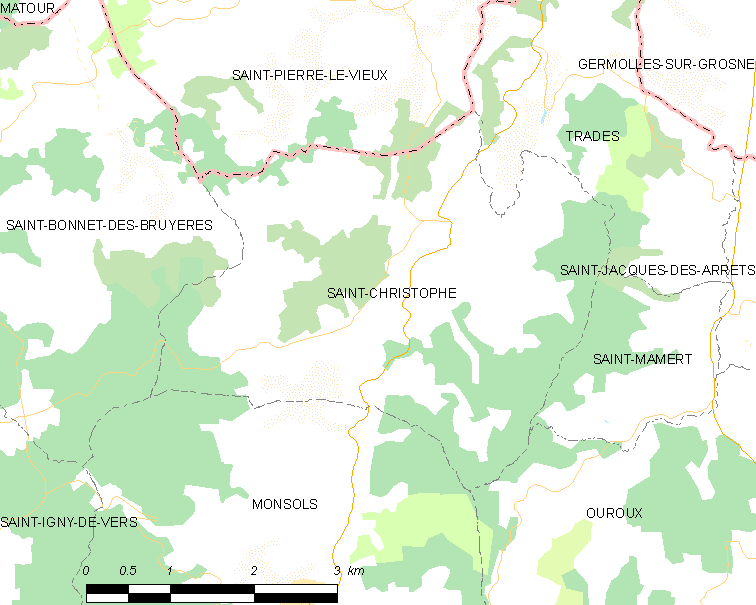 Map of French municipality